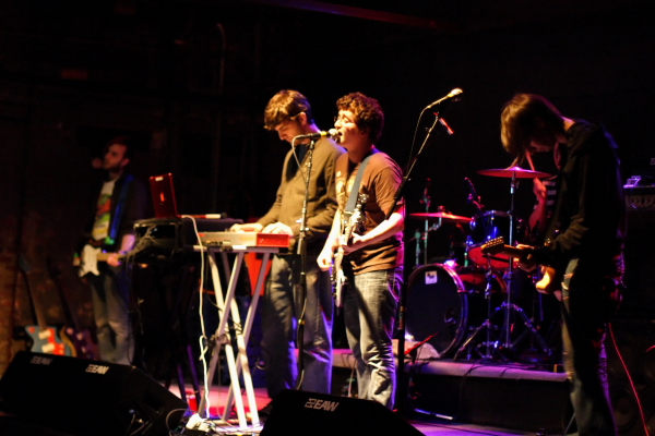 The Main Drag Live at Harpers Ferry on 21st March 2007. Photo by Kris Ireland, taken from Flickr.